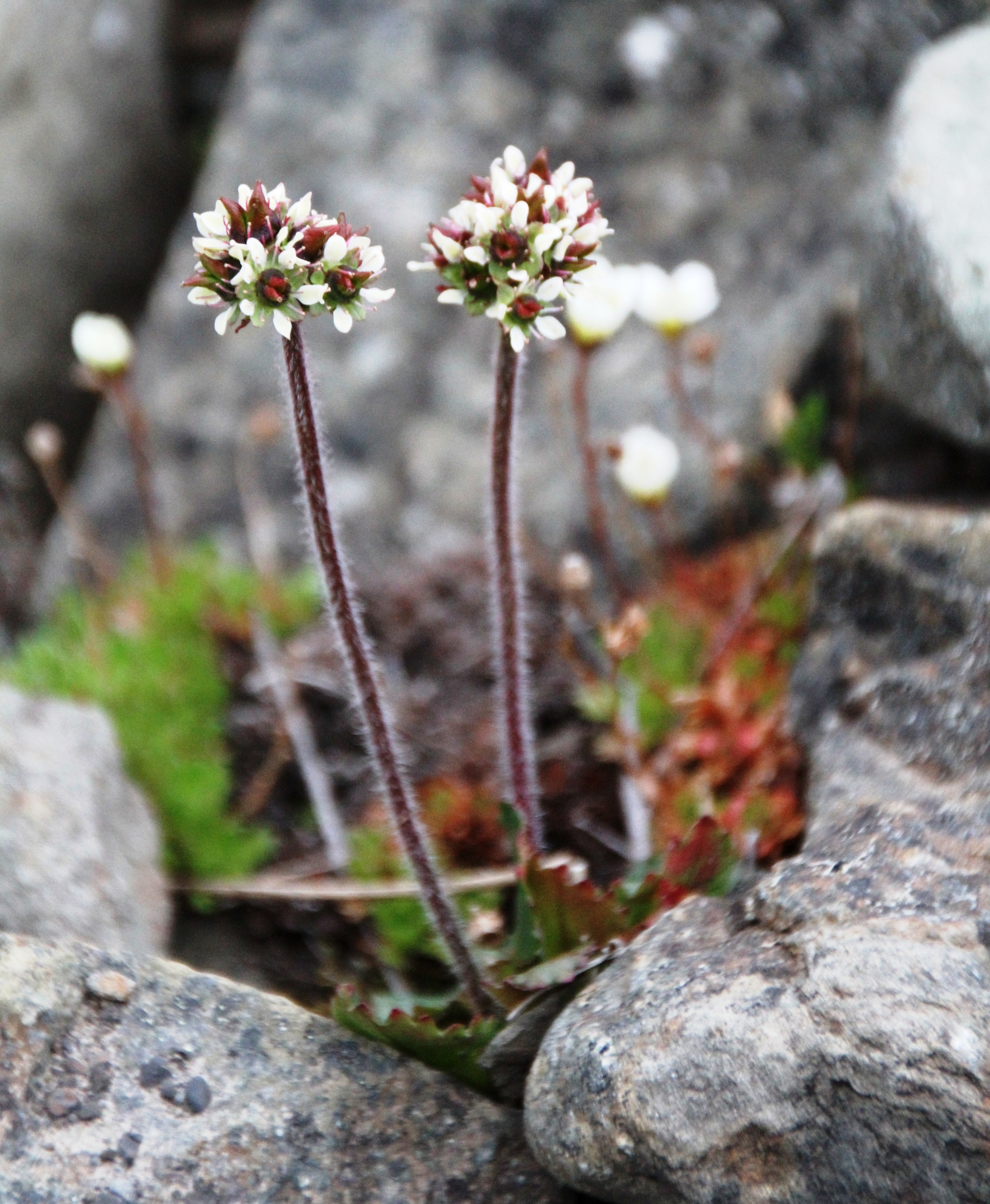 Saxifrage flower observed at island of Spitsbergen, Svalbard (Norway). August,, 2012.